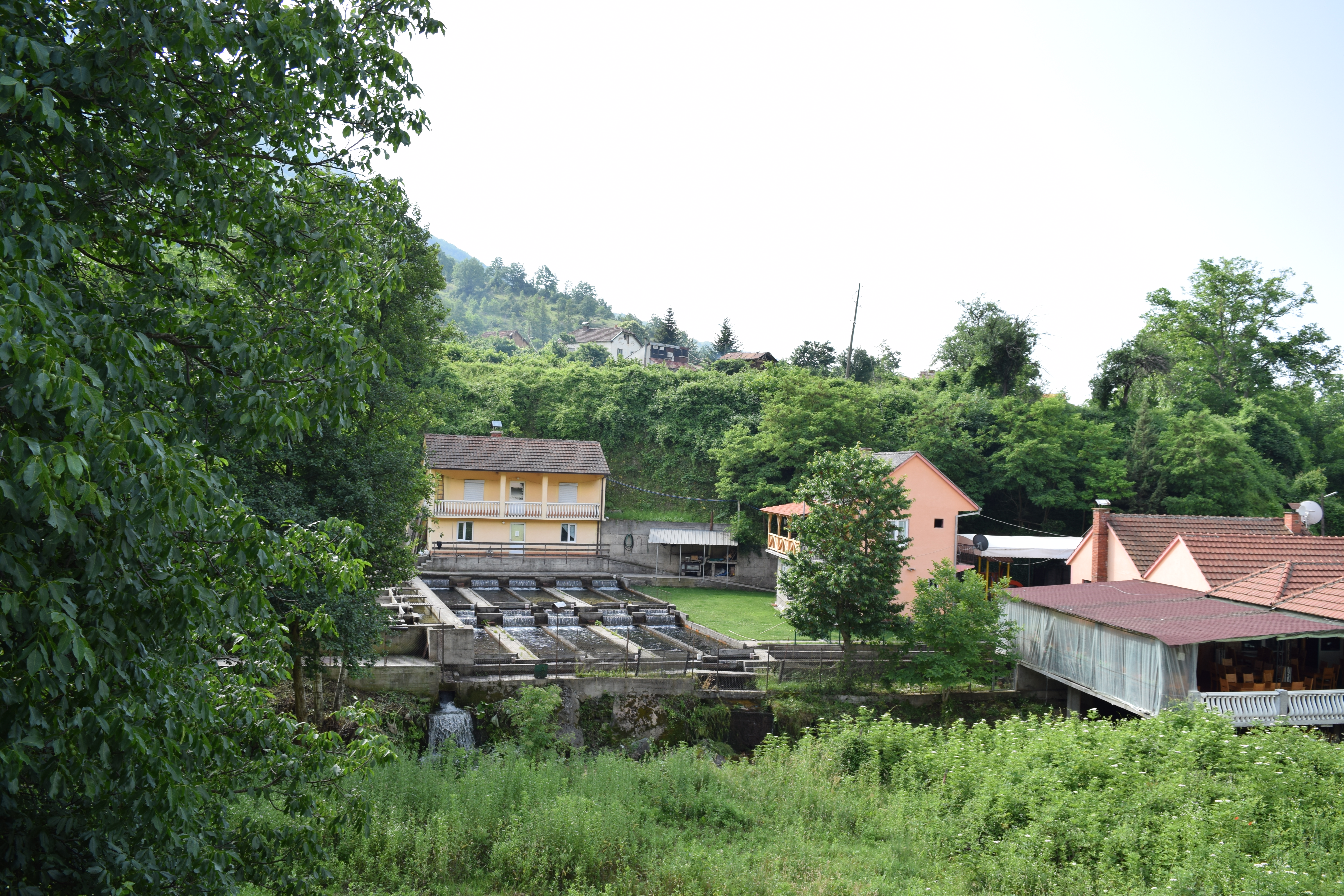 Fishpond in the village Nežilovo